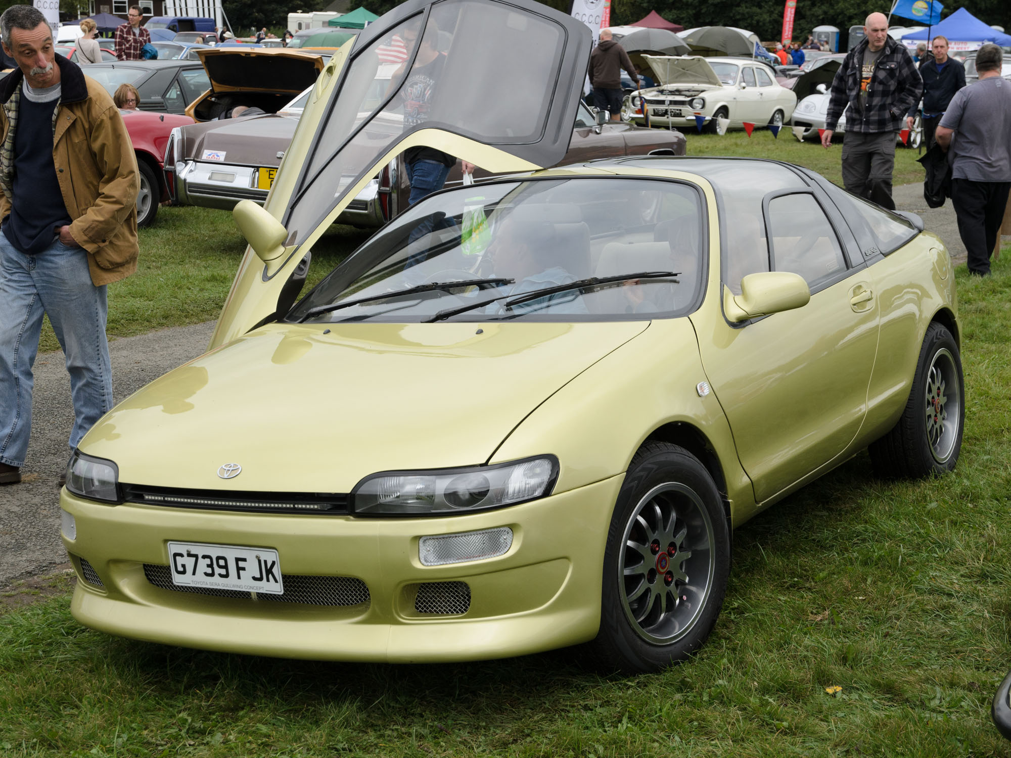 1990 Toyota Sera at the Cholmondeley Classic Car Show 04/09/2016